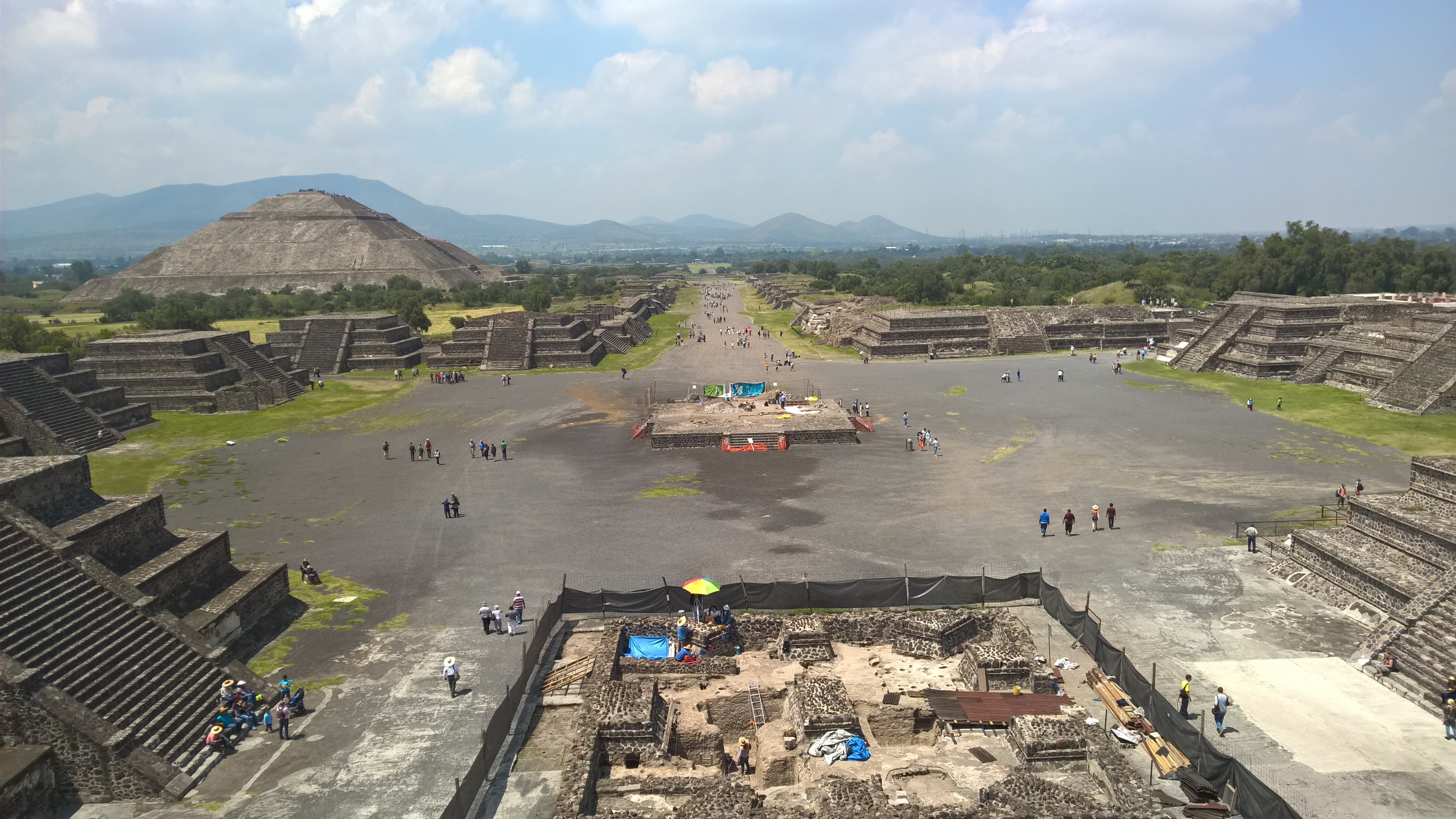 Avenue of the Dead at Teotihuacan, view from Pirámide de la Luna